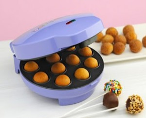 аппарат для приготовления кейк попсов